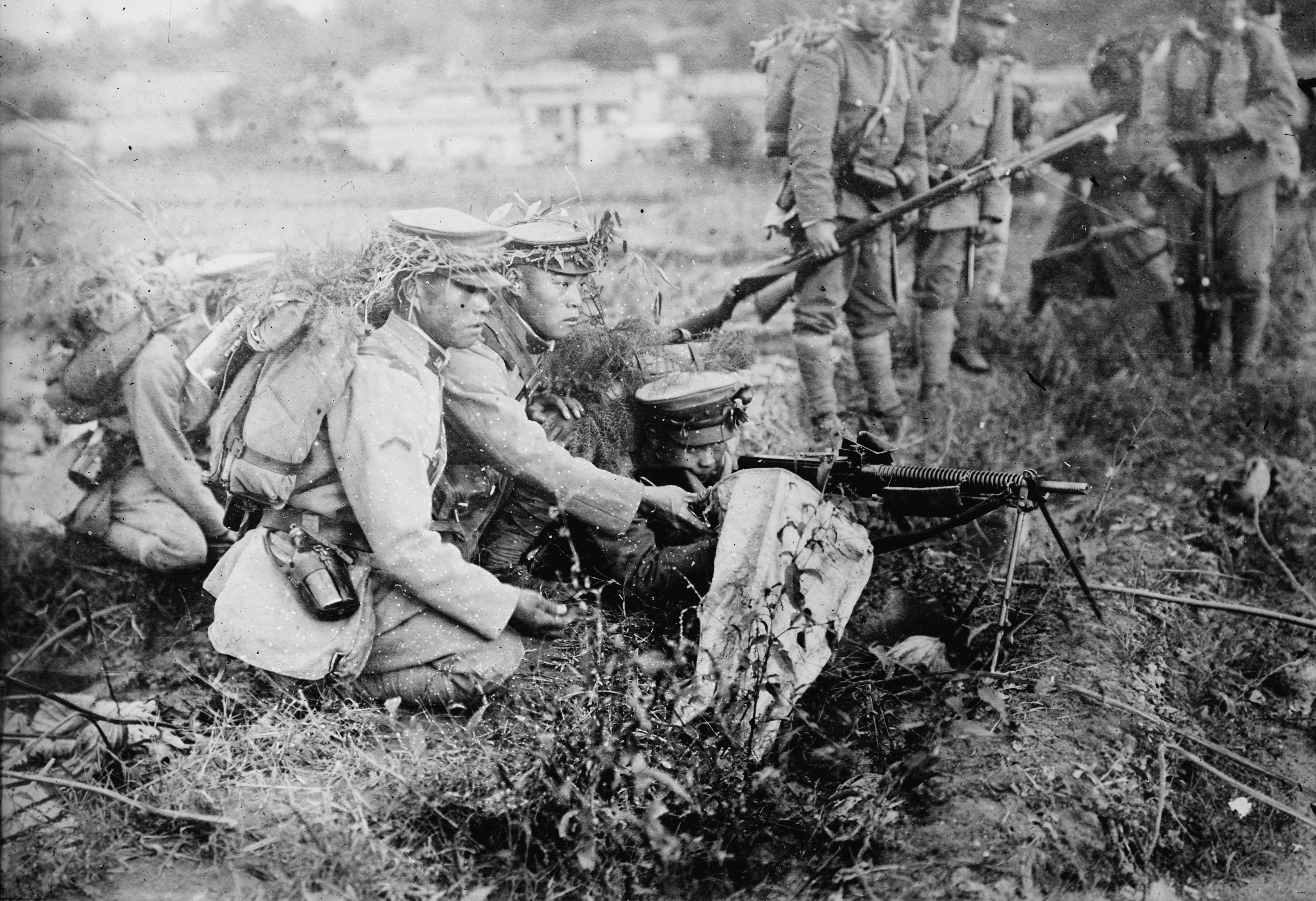 Japanese Type 11 light machine gun